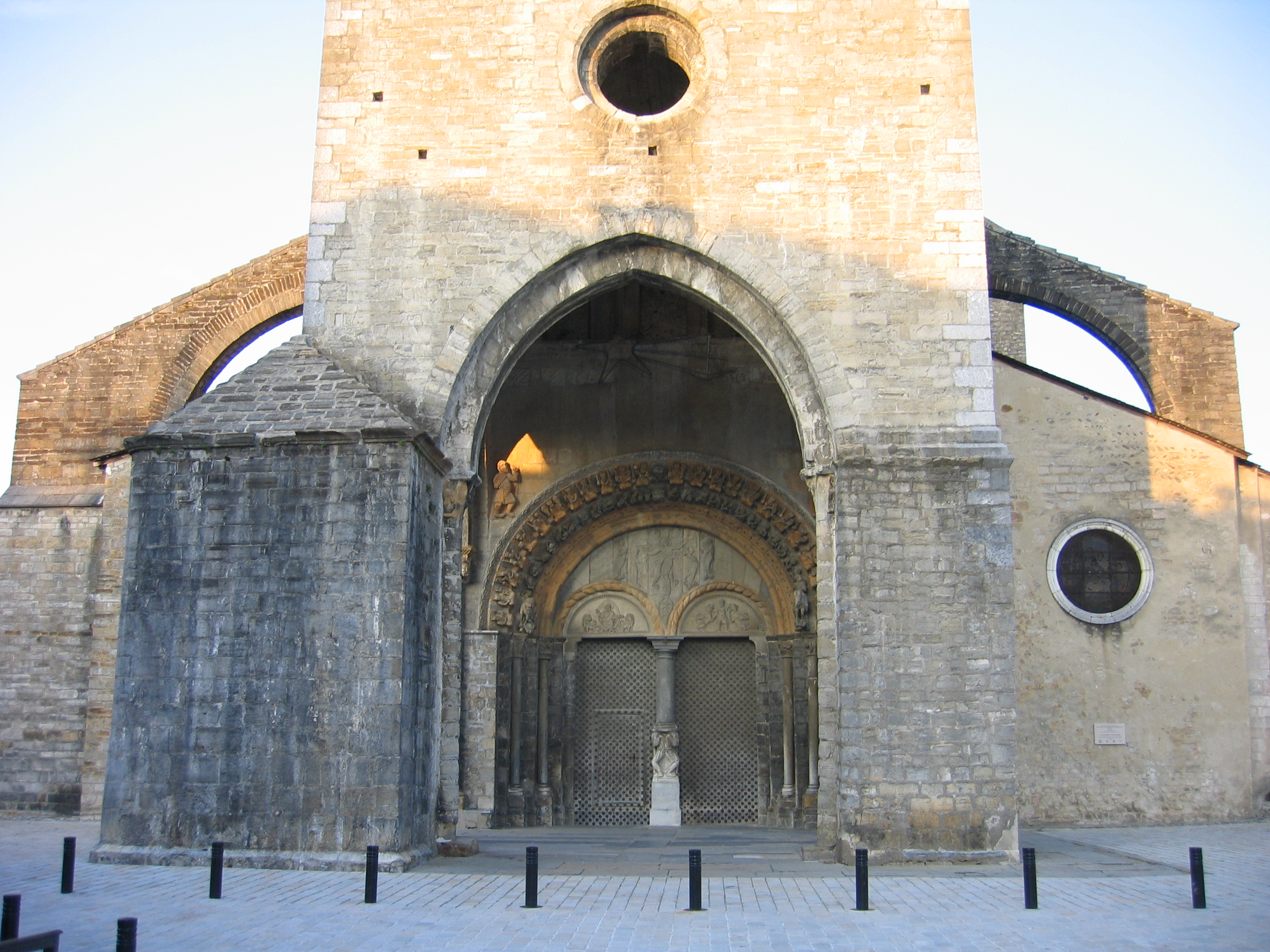 The portail of the church of Sainte-Marie in Oloron-Sainte-Marie